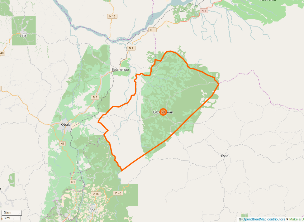 Edzendouan in Cameroon ː city boundaries with OSM. This map may be incomplete, and may contain errors. Don't rely solely on it for navigation.